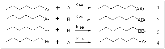 copolymerization